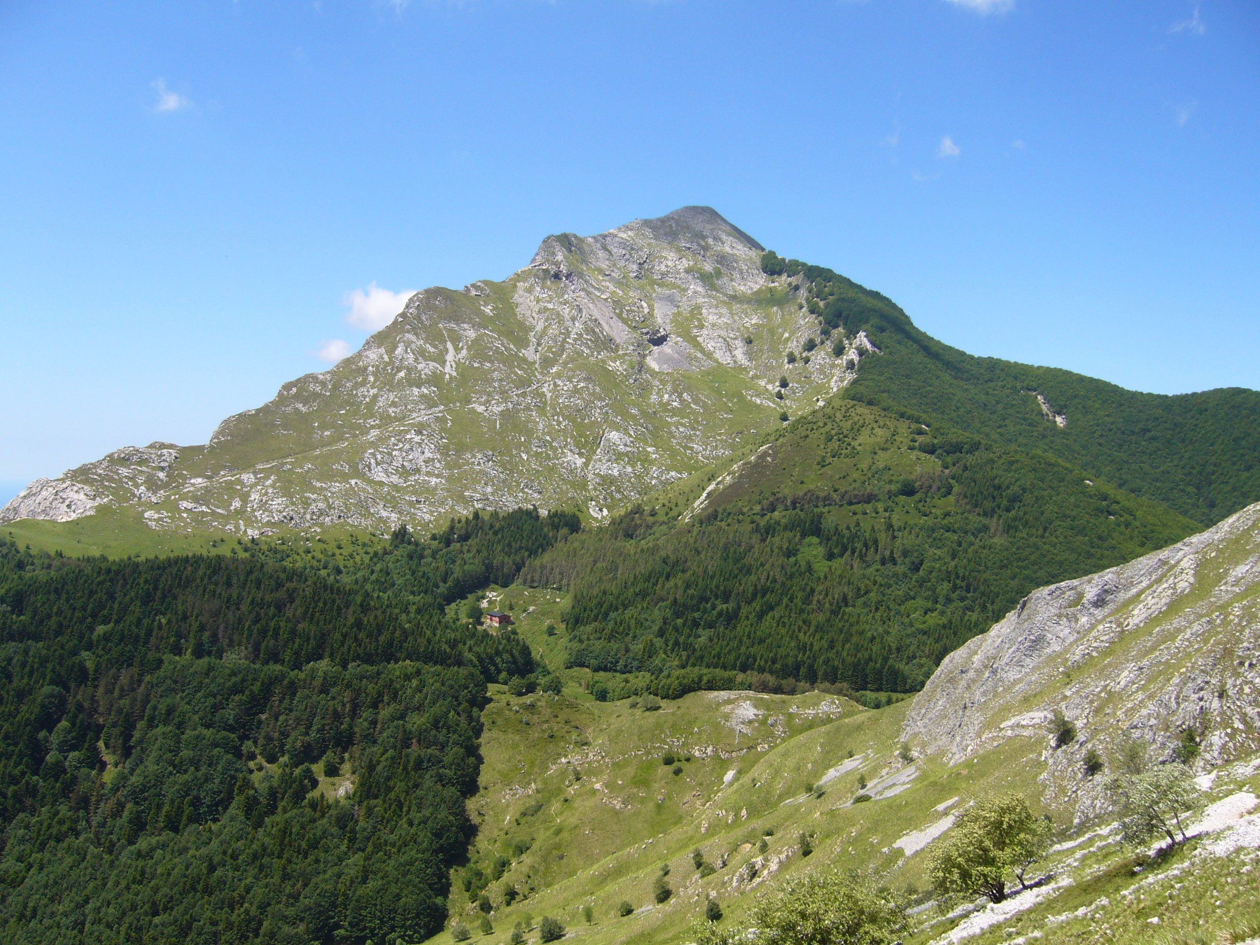 Mount Corchia (Alpi Apuane, Italy) from path 125, between Foce di Valli and Foce Mosceta